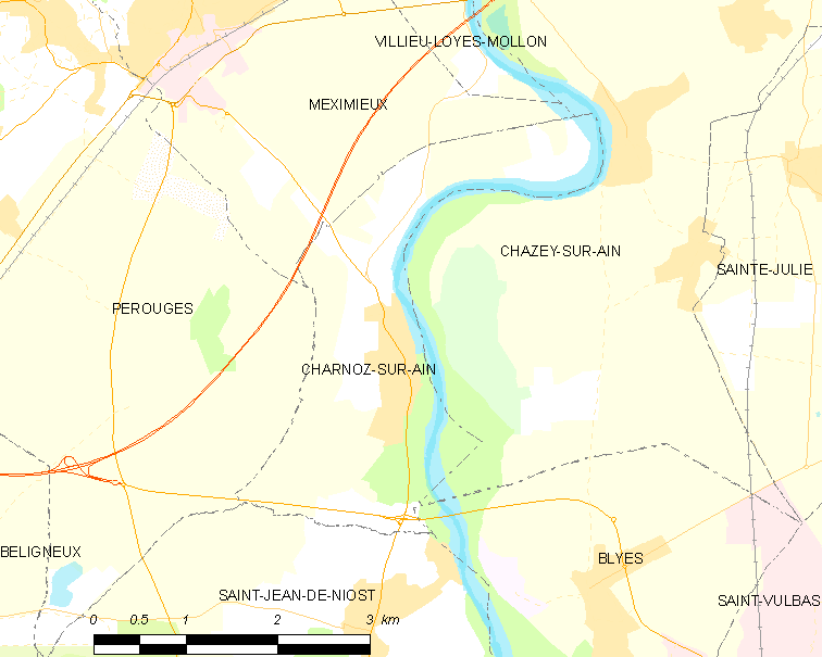 Map of French commune: Charnoz-sur-Ain Map commune FR insee code 01088.png